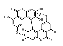 Verrulactone A